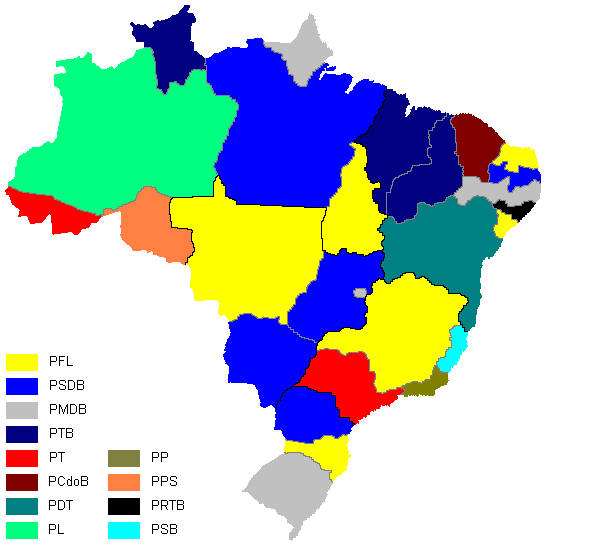 Parties of the senators elected in the Brazilian general elections, 2006-10-01